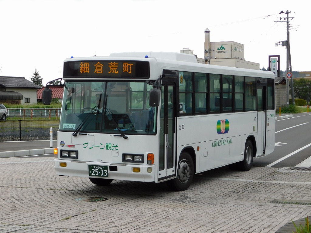 Green kanko bus Isuzu Journey K (KC-LR333J)